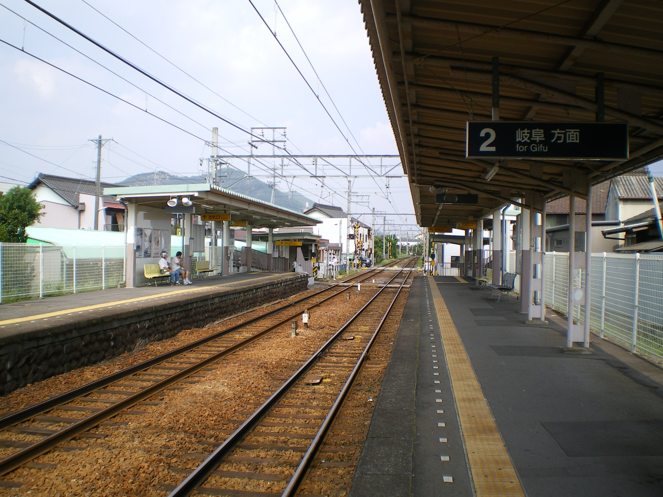 Nagoya Railroad Kakamigahara Line Meiden Kakamigahara Station Platform